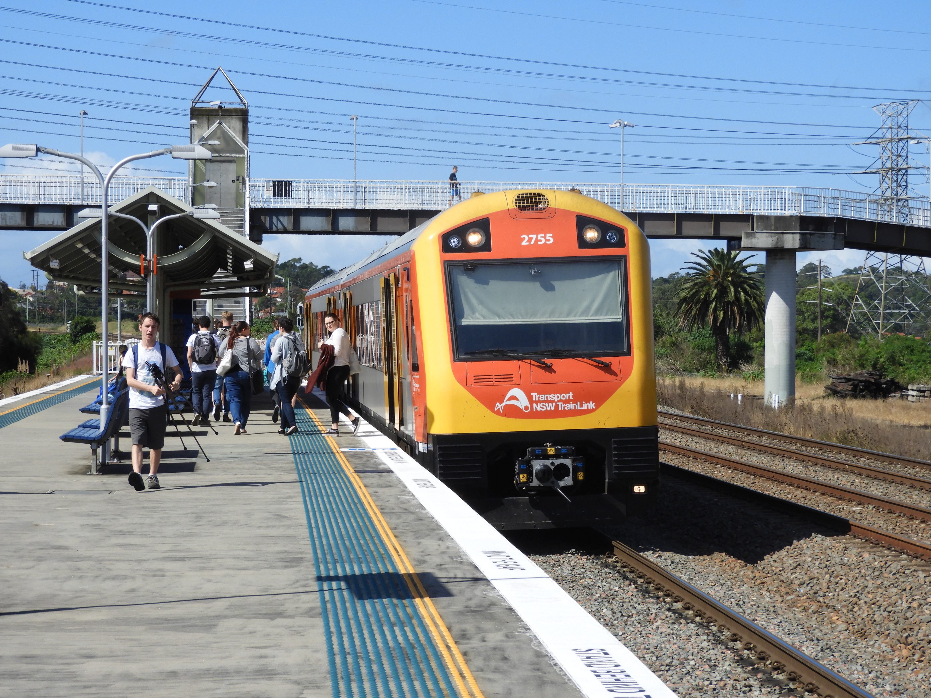 Hunter Railcar J5 at Warabrook